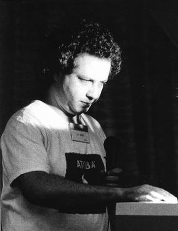 Carlos Kenig, 1990 in Nagoya